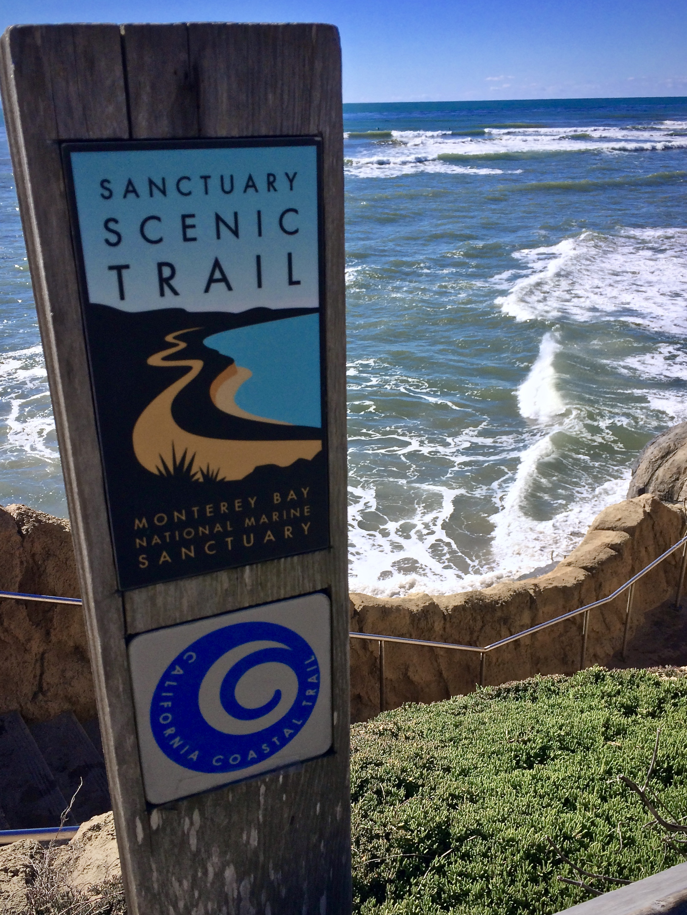 California Coastal Trail near Pleasure Pt., between Santa Cruz and Capitola, California. Also part of the Sanctuary Scenic Trail of the Monterey Bay National Marine Sanctuary